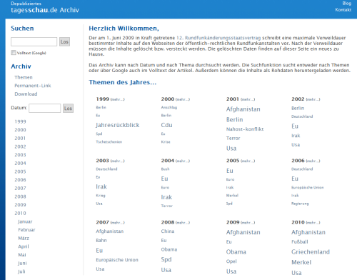 Tagesschau.de Archive at , screenshot of main page